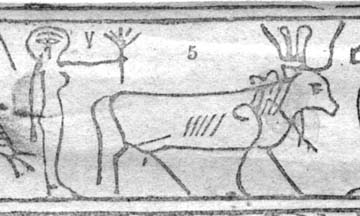 Figure No. 5 from Facsimile No. 2 From the Times and Seasons